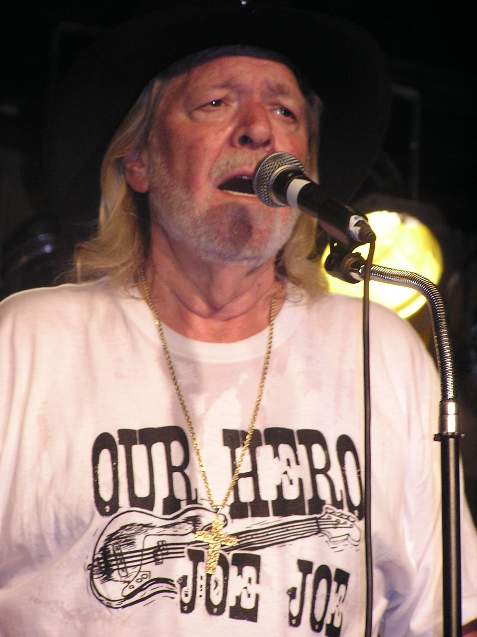 Country singer Mel McDaniel performing at a benefit event.